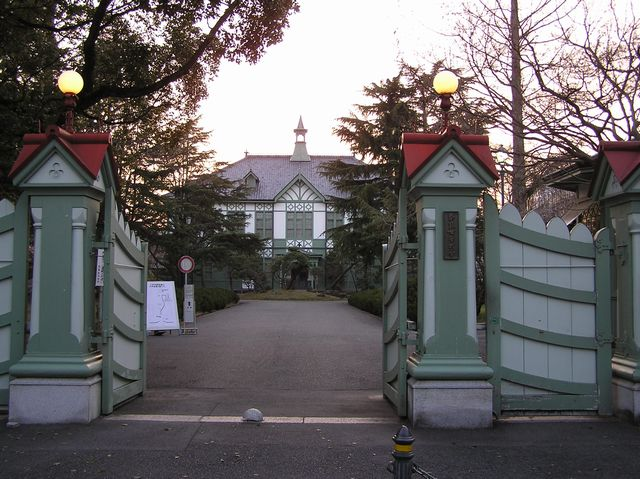 Nara Women's University, Main Entrance Licensing available: Source: myself Photographed by: OhMyDeer on March 26th, 2007 JST